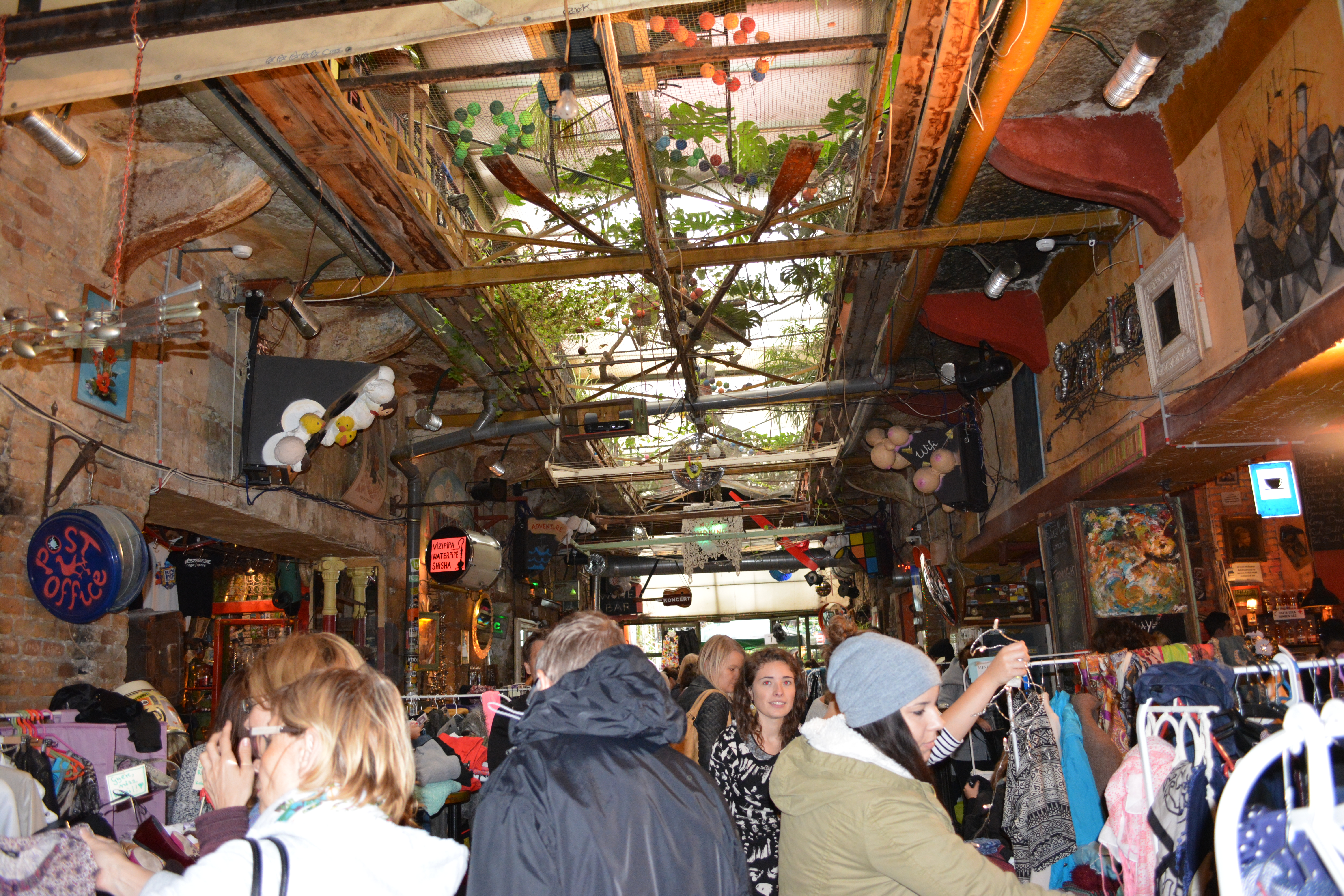 Tourist Shopping at Szimpla Kert